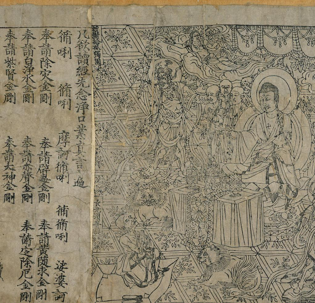 Part of File:Jingangjing.jpg, cropped for easier format to show